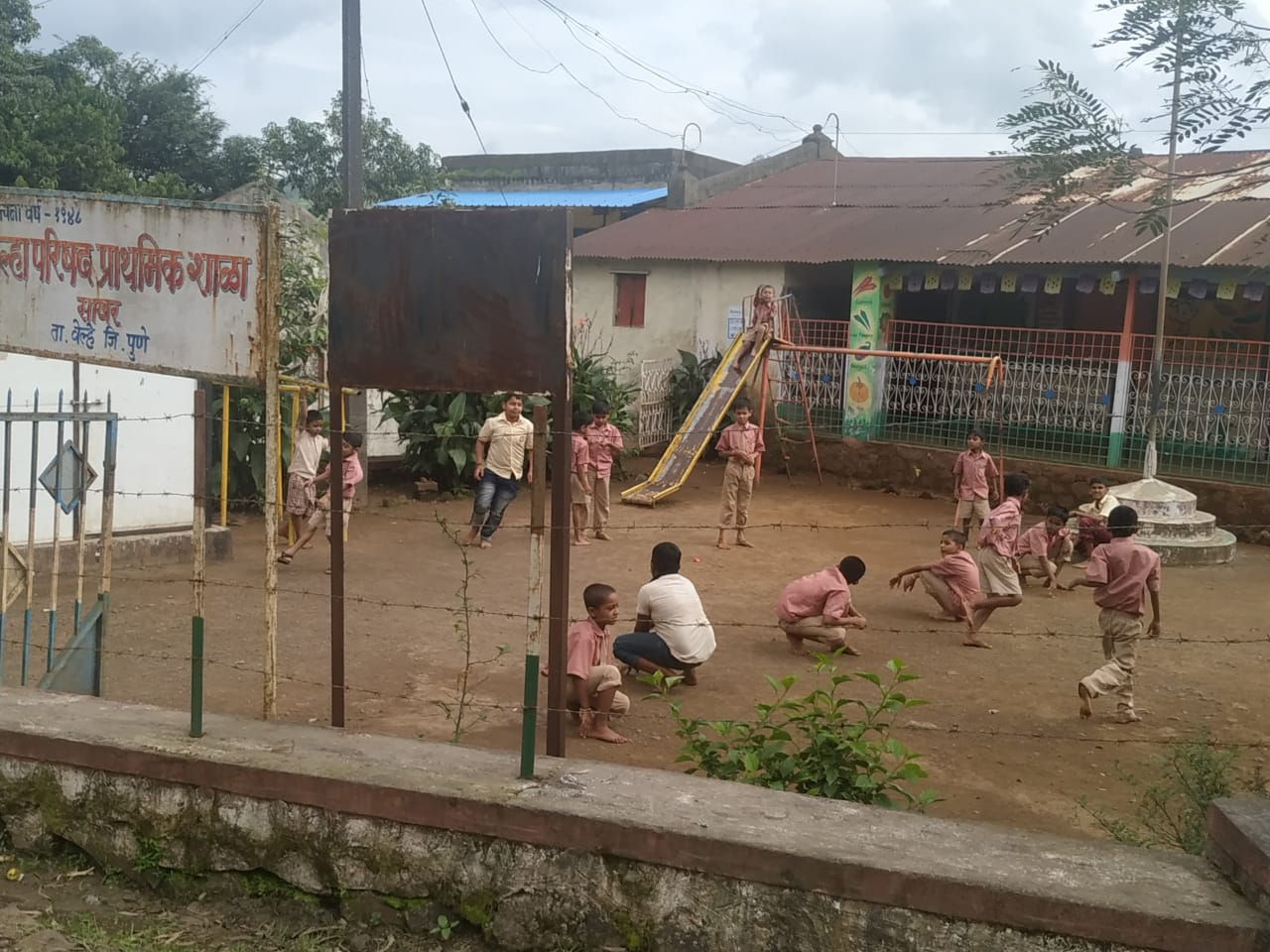 Sakhar School